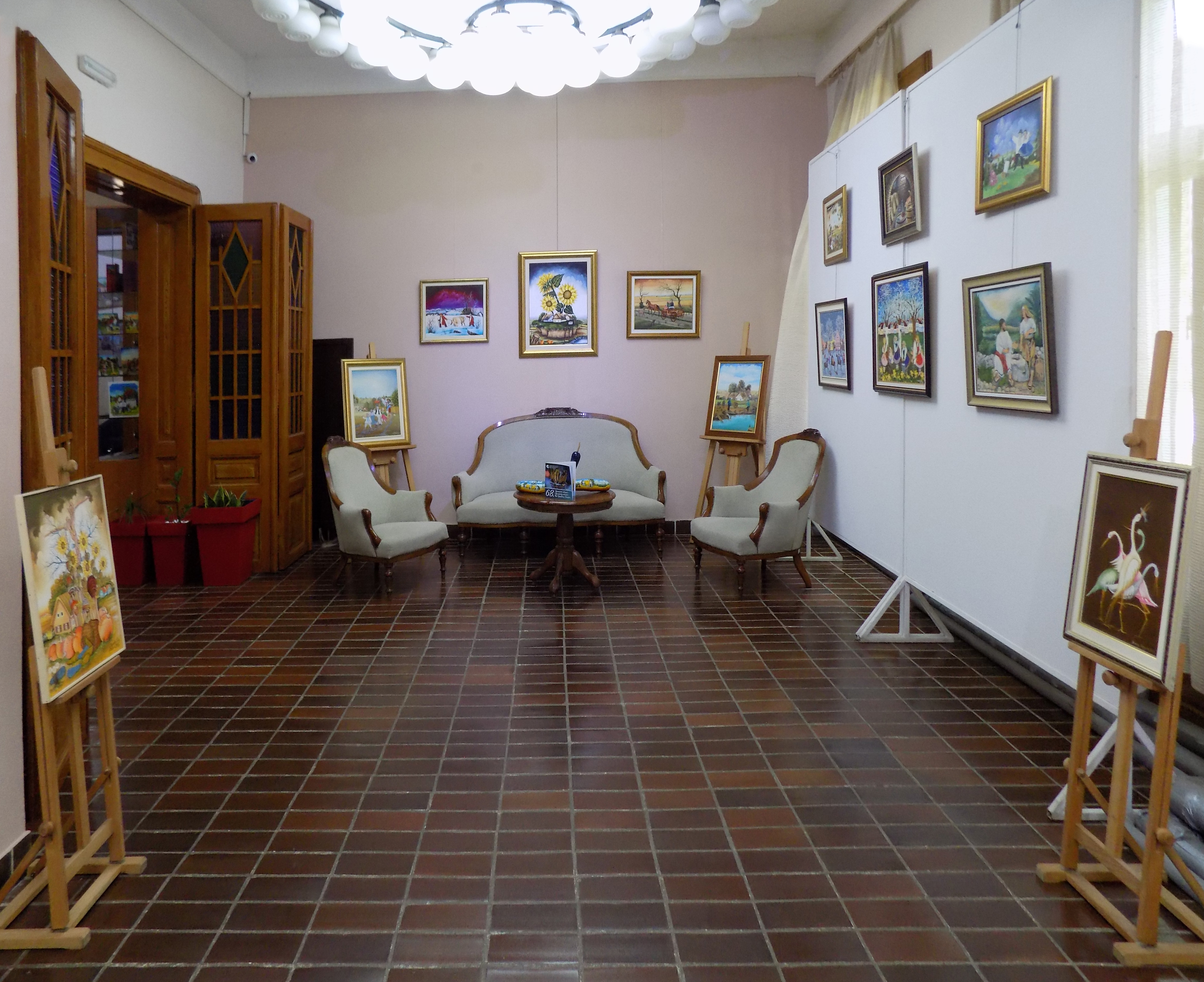 Works of contemporary painters in the Gallery of Naive Art in Kovačica